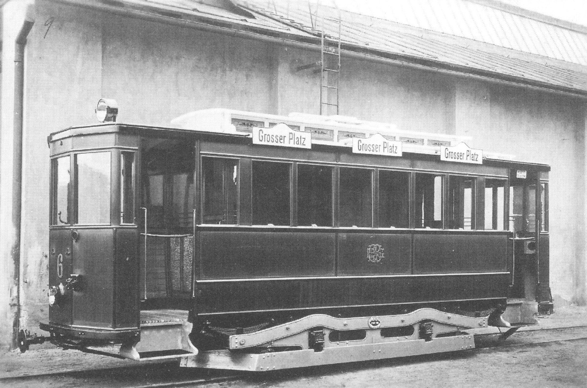 Tram No. 6, Královo Pole, Brno, Moravia (now Czech Republic)